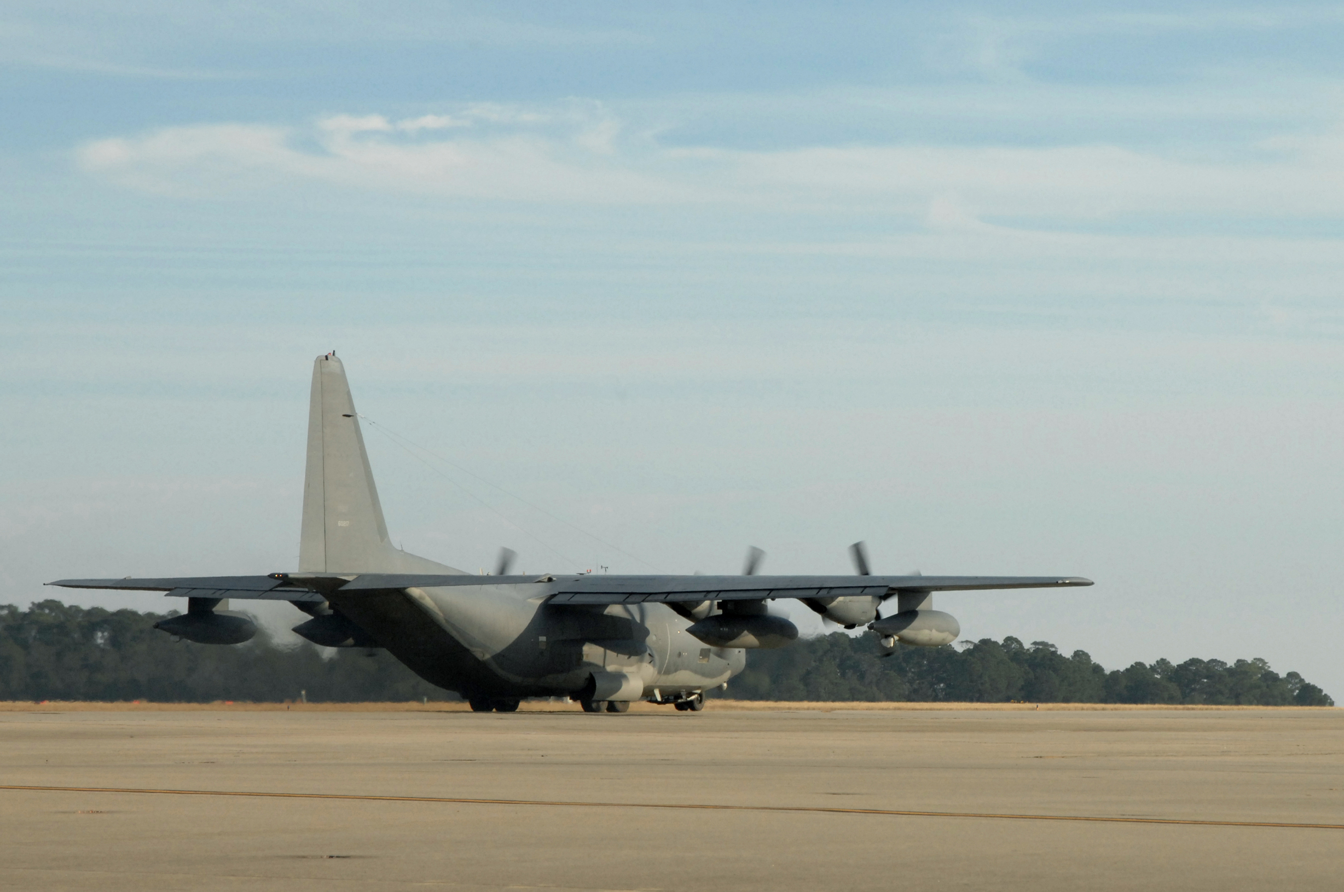 A MC-130H Combat Talon II from the 15th Special Operations Squadron at Hurlburt Field, Fla., departs for Haiti Jan. 13, 2010. Air Force Special Operations Command Airmen will participate in the humanitarian assistance and disaster relief mission in Haiti. (U.S. Air Force photo/Senior Airman Matthew Loken)